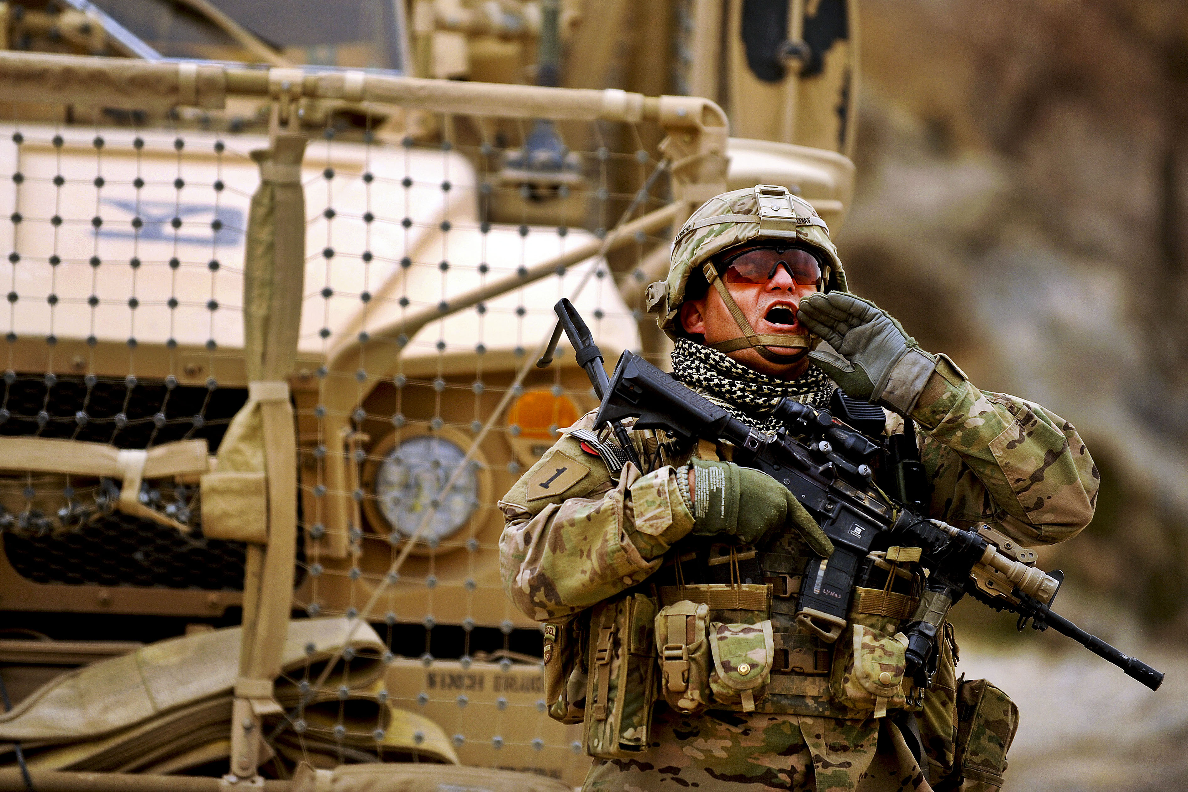 U.S. Army Staff Sgt. Mark Lynas calls for a member of his team during a mission in Shah Joy, Afghanistan, on Nov. 26, 2011. Lynas, a squad leader assigned to Provincial Reconstruction Team Zabul, is deployed from Company C, 182nd Infantry Regiment, Massachusetts National Guard.